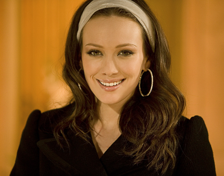 Taken at MuchMusic during the taping of Live@Much: Hilary Duff.